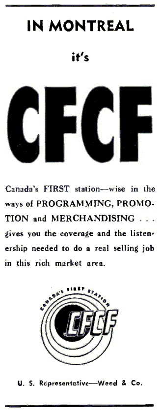 Advertisement for CFCF radio in Montreal, Quebec. Includes the station slogan "Canada's First Station".